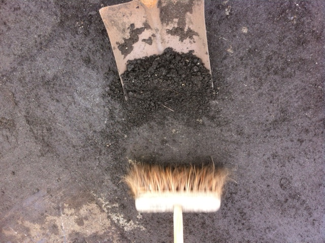 The picture shows how the earth on the roof is gathered together and raised to remove it from the roof.